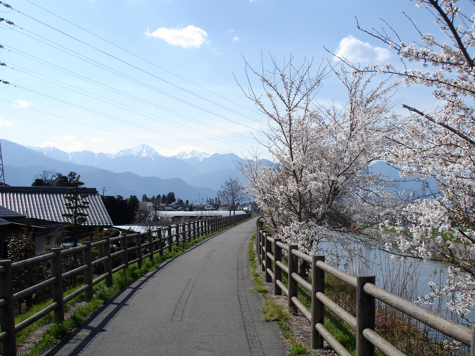 Nagano prefectural highway No.441 - cycleway, Japan